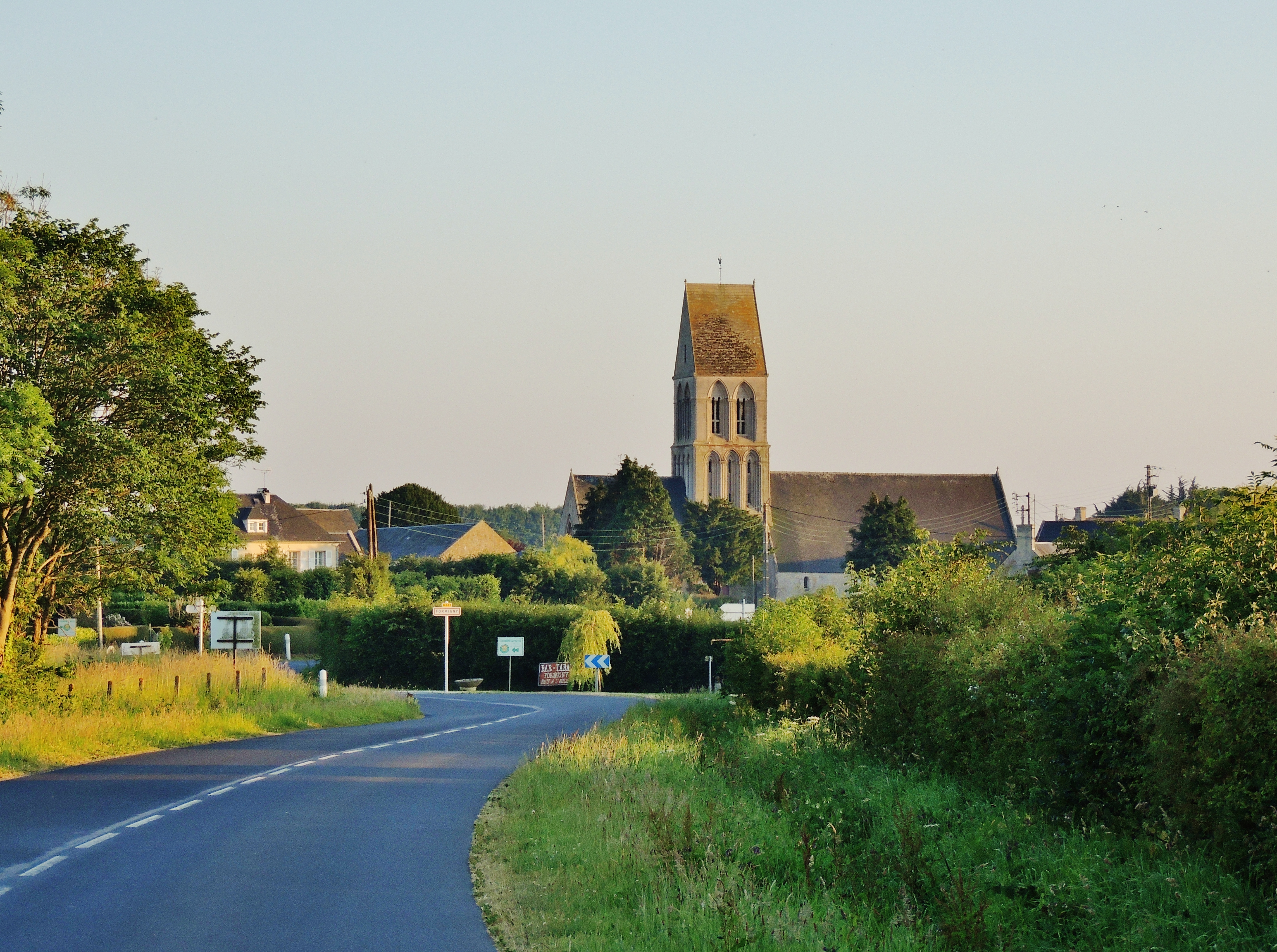 Formigny, France seen from the a distance.